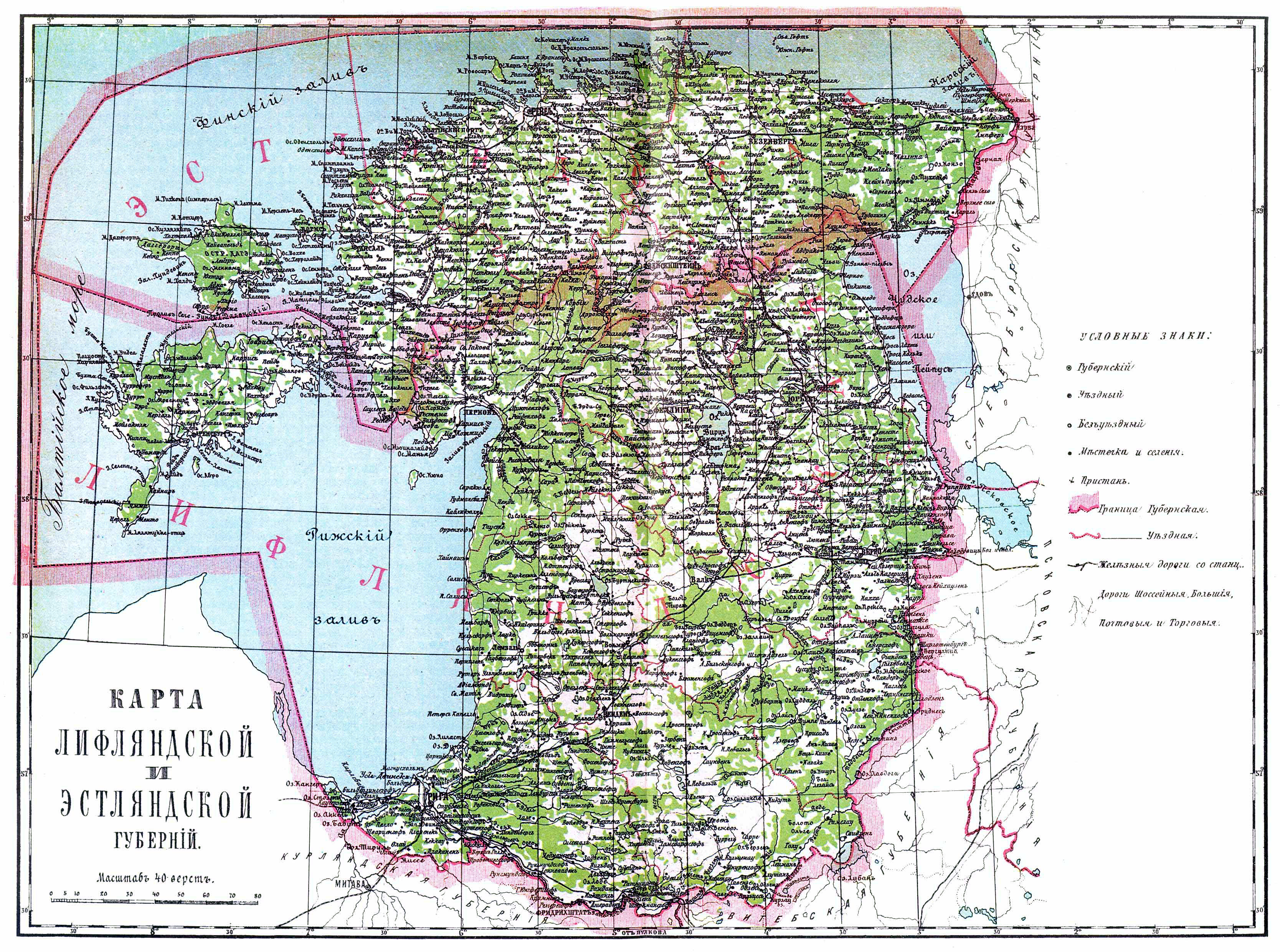 Governorate of Estonia and Governorate of Livonia of Russian Empire from Brockhaus and Efron Encyclopedia